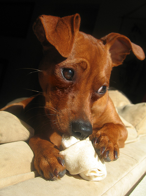 Red Miniature Pinscher with non cropped ears.